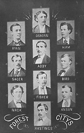 1871 Rockford Forest City baseball team picture.